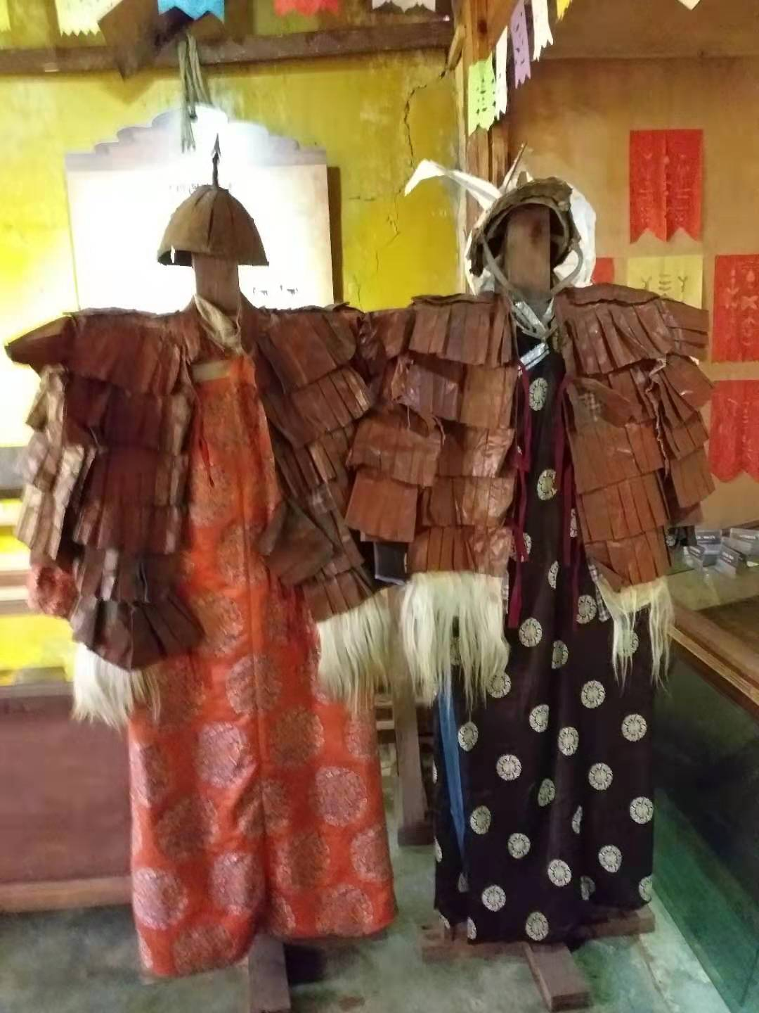 Clothes of religious ceremonies of Moso, photo taken at Moso's Folk museum, in Lugu Lake of Yunnan province, China.